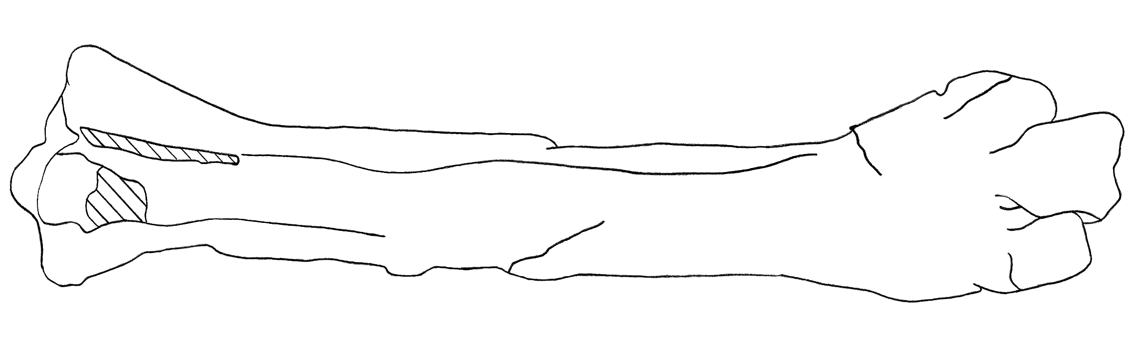 plantar view of the tarsometatarsus of Kelenken guillermoi, based on "A NEW PHORUSRHACID (AVES: CARIAMAE) FROM THE MIDDLE MIOCENE OF PATAGONIA, ARGENTINA", Fig 7; hatched parts are missing in the fossil